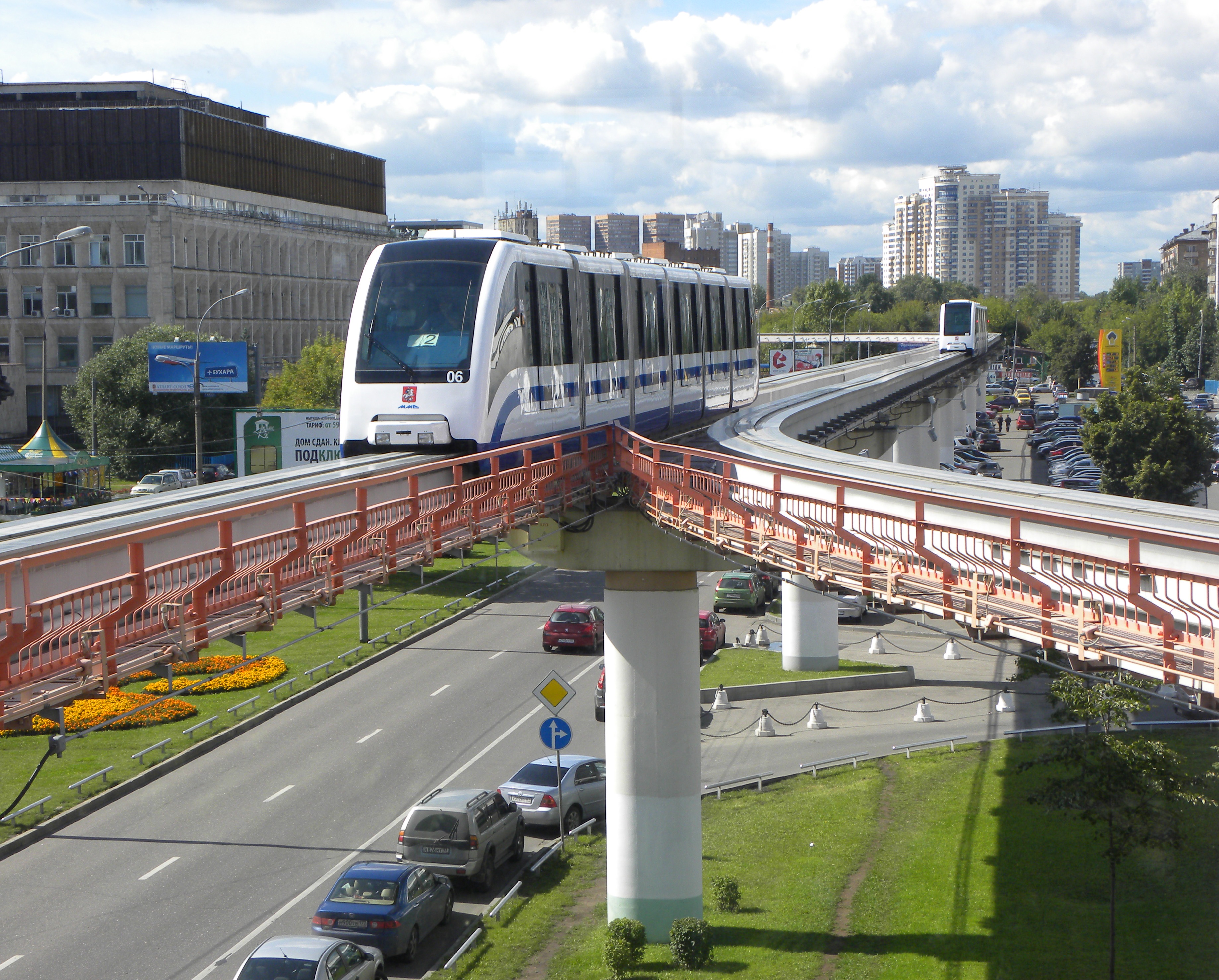 Moscow Monorail train is arriving to the "Telecentre" station.